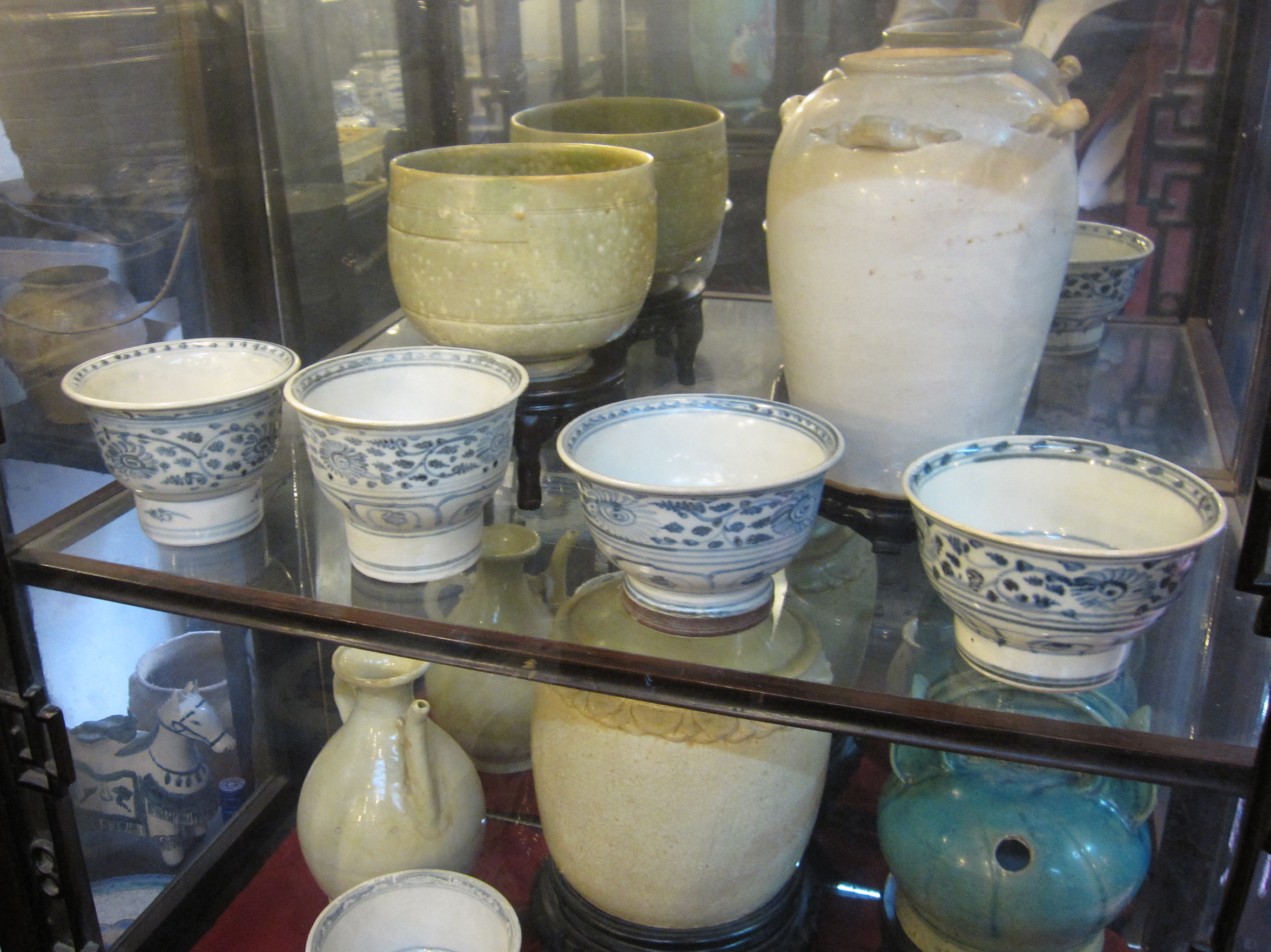 Examples of Annam ceramics, taken at an antique shop in Hanoi.